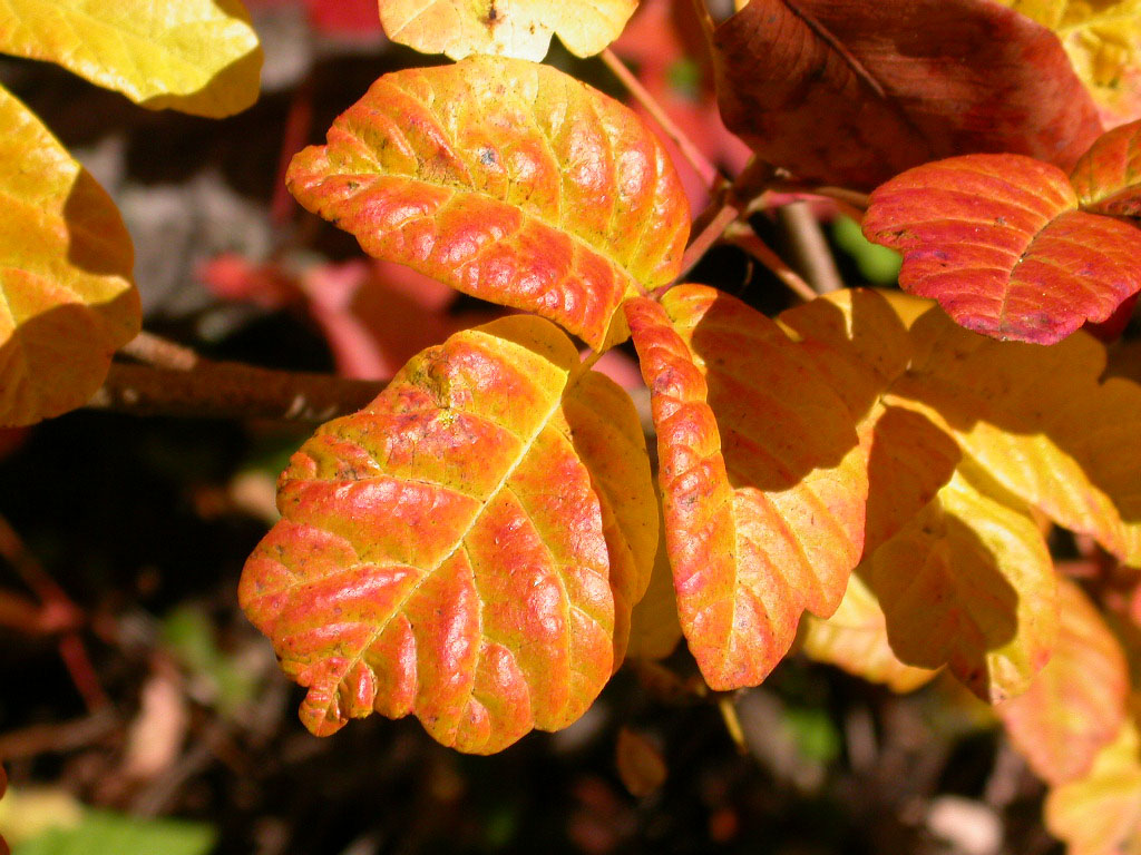 Poison Oak up close